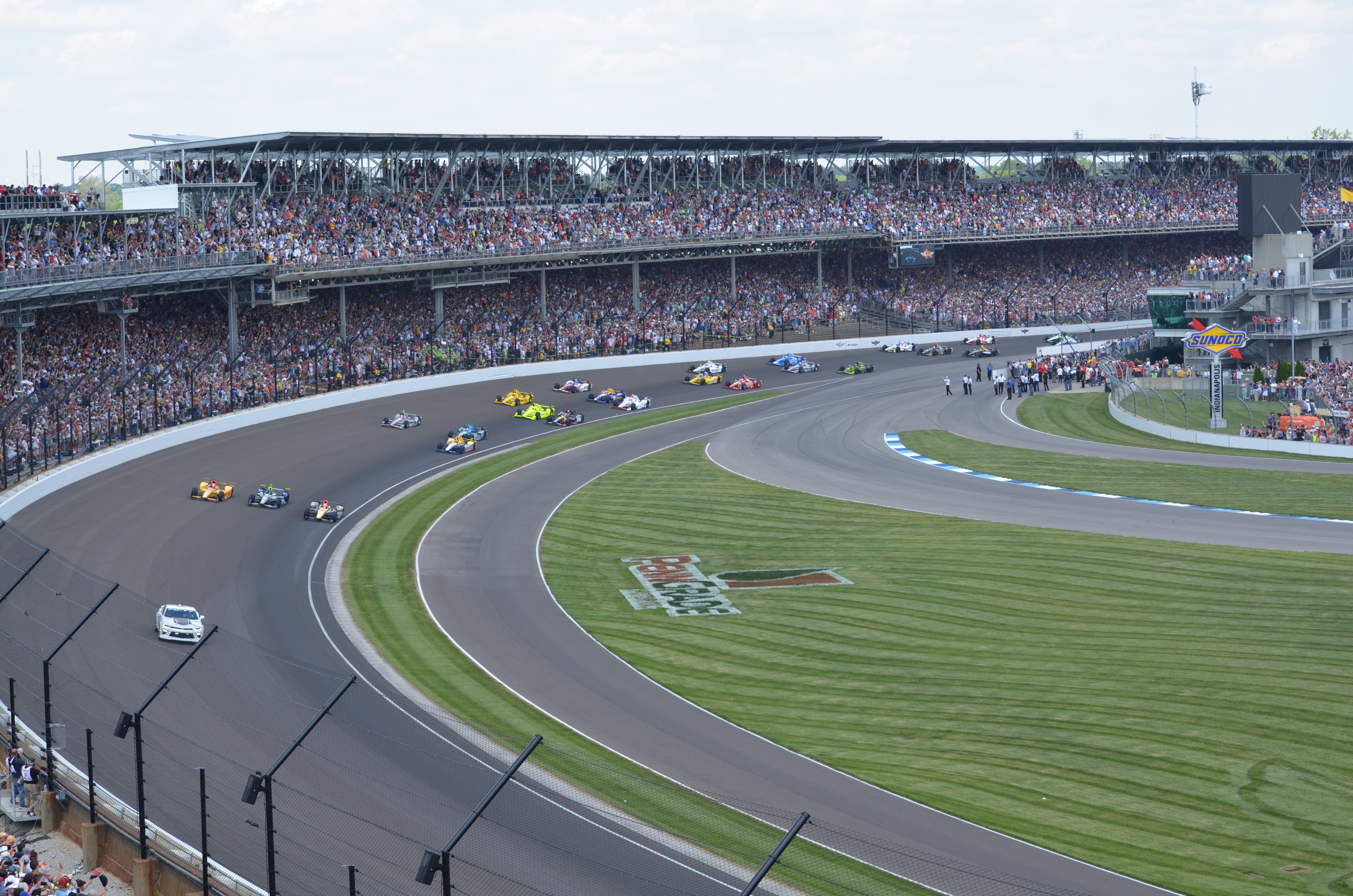 Pace lap of the 2016 Indianapolis 500